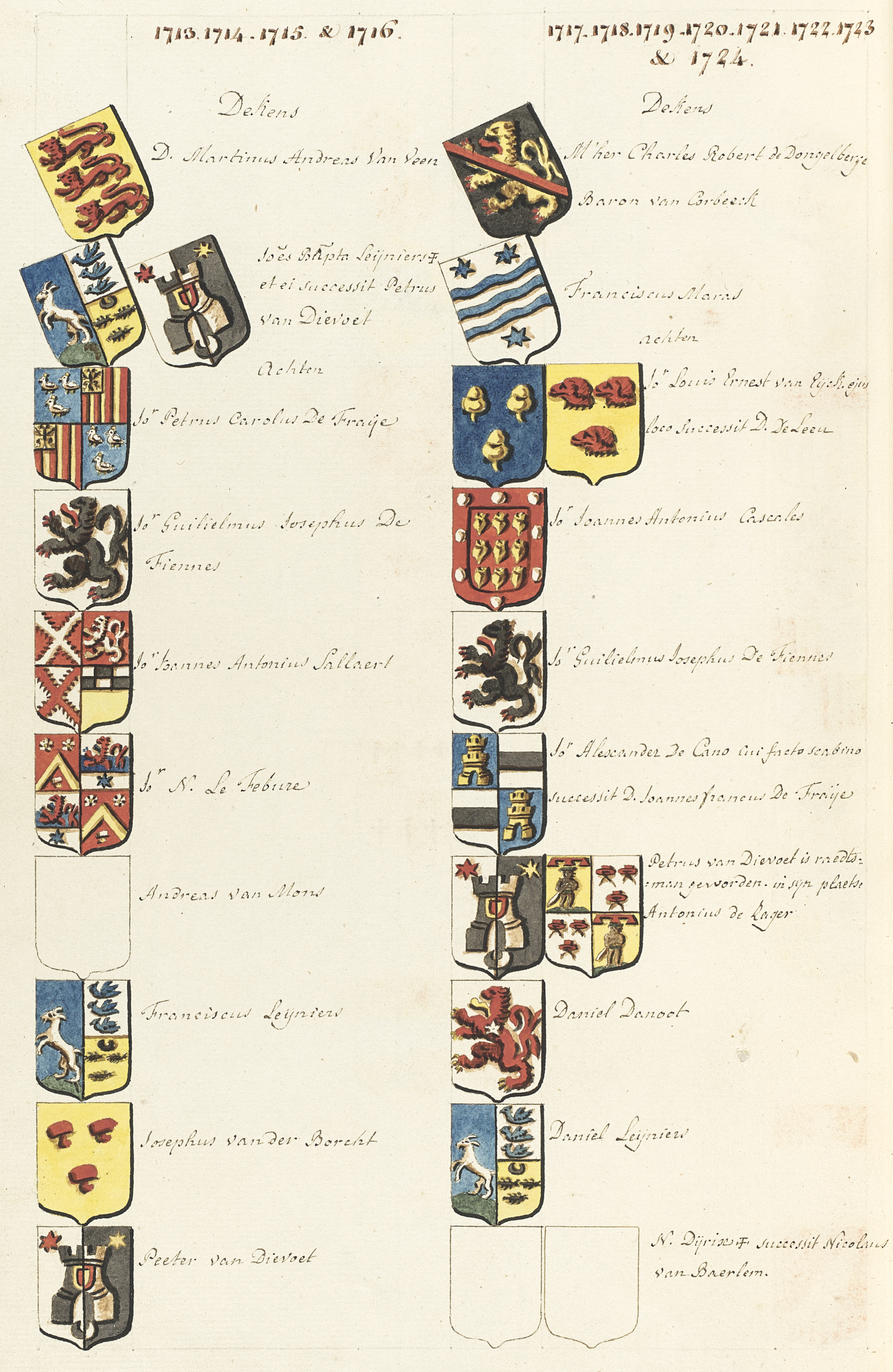 Roll of arms of the Drapery Court of Brussels 1713 - 1724 (G123 manuscript)